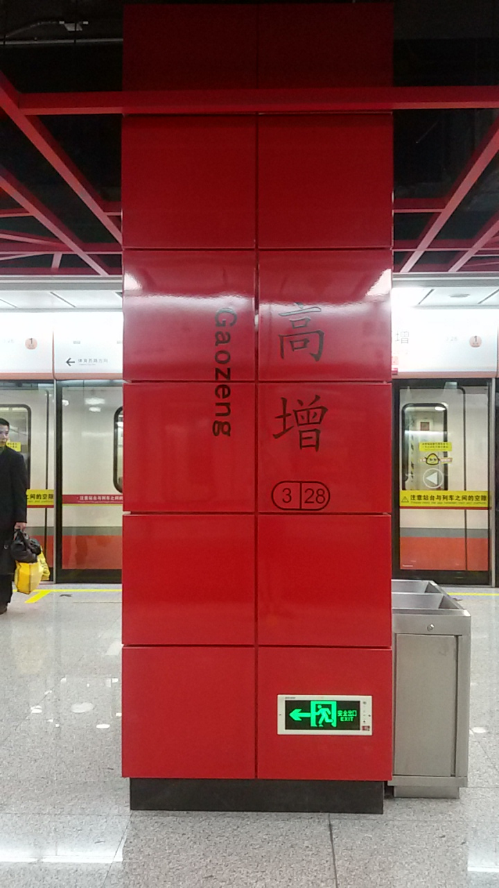 WORD on PILLAR for Line 3 at Gaozeng Station in Guangzhou Metro.